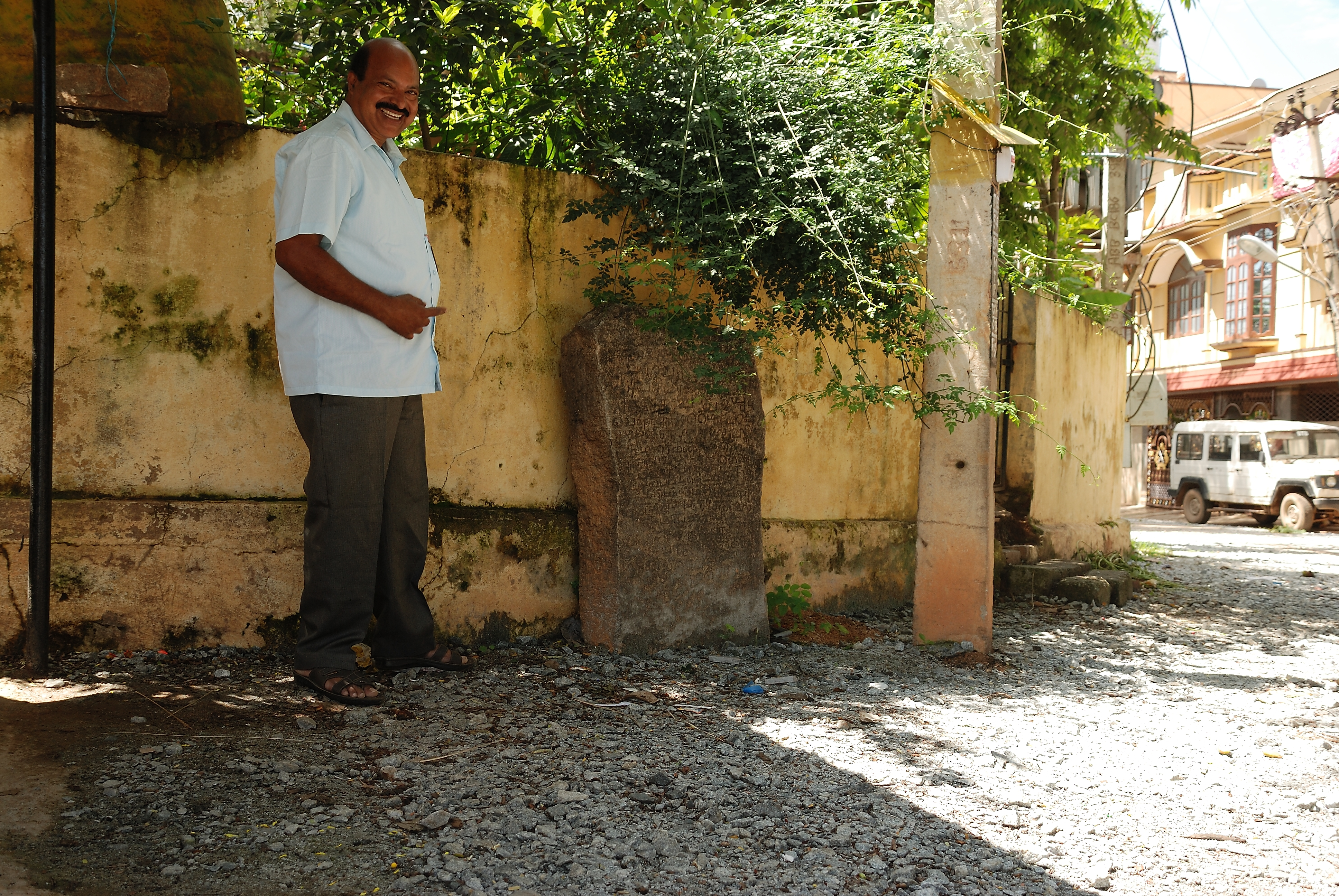 inscriptionstonesofbangalore